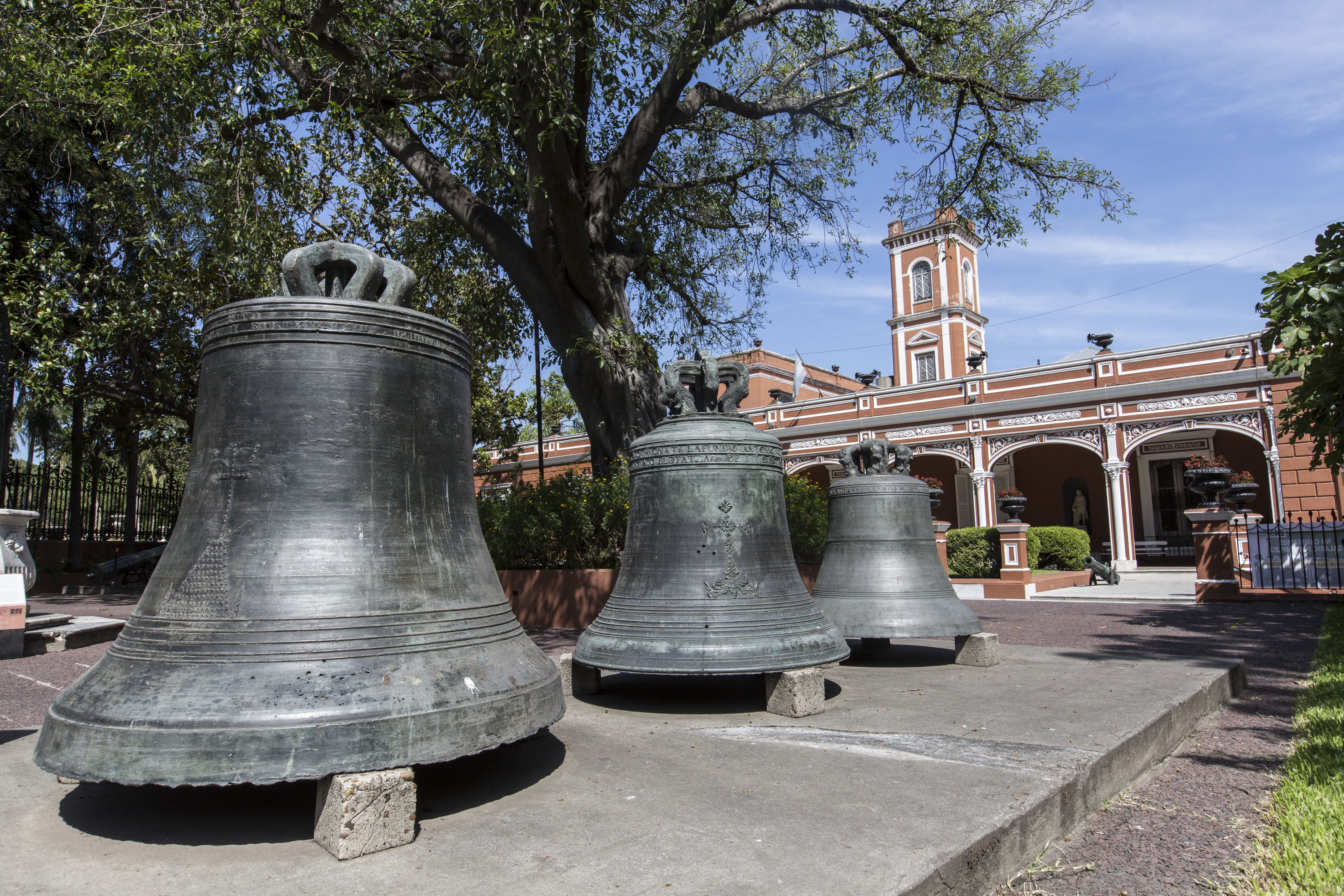 Campanas, fines del siglo XVIII y principios del siglo XIX en el Museo Histórico Nacional. Fotos: Romina Santarelli / Ministerio de Cultura de la Nación